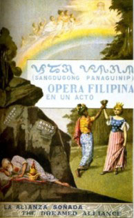 Promotional material for the Sangdugong Panaguinip opera